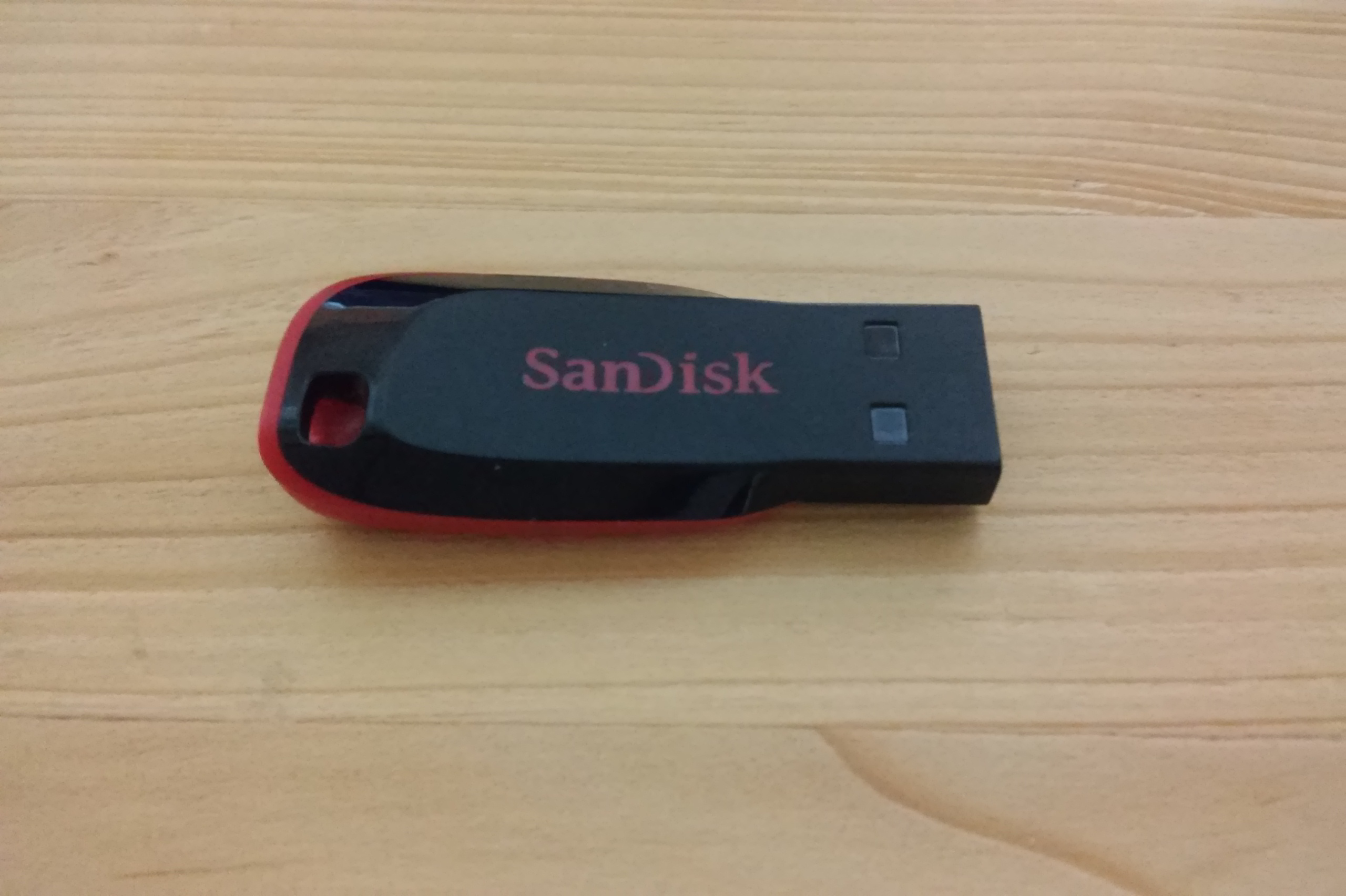 SanDisk USB flash drive